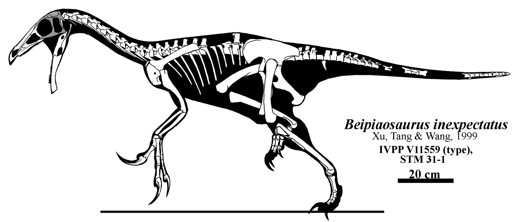 Skeletal reconstruction of Beipiaosaurus inexpectatus